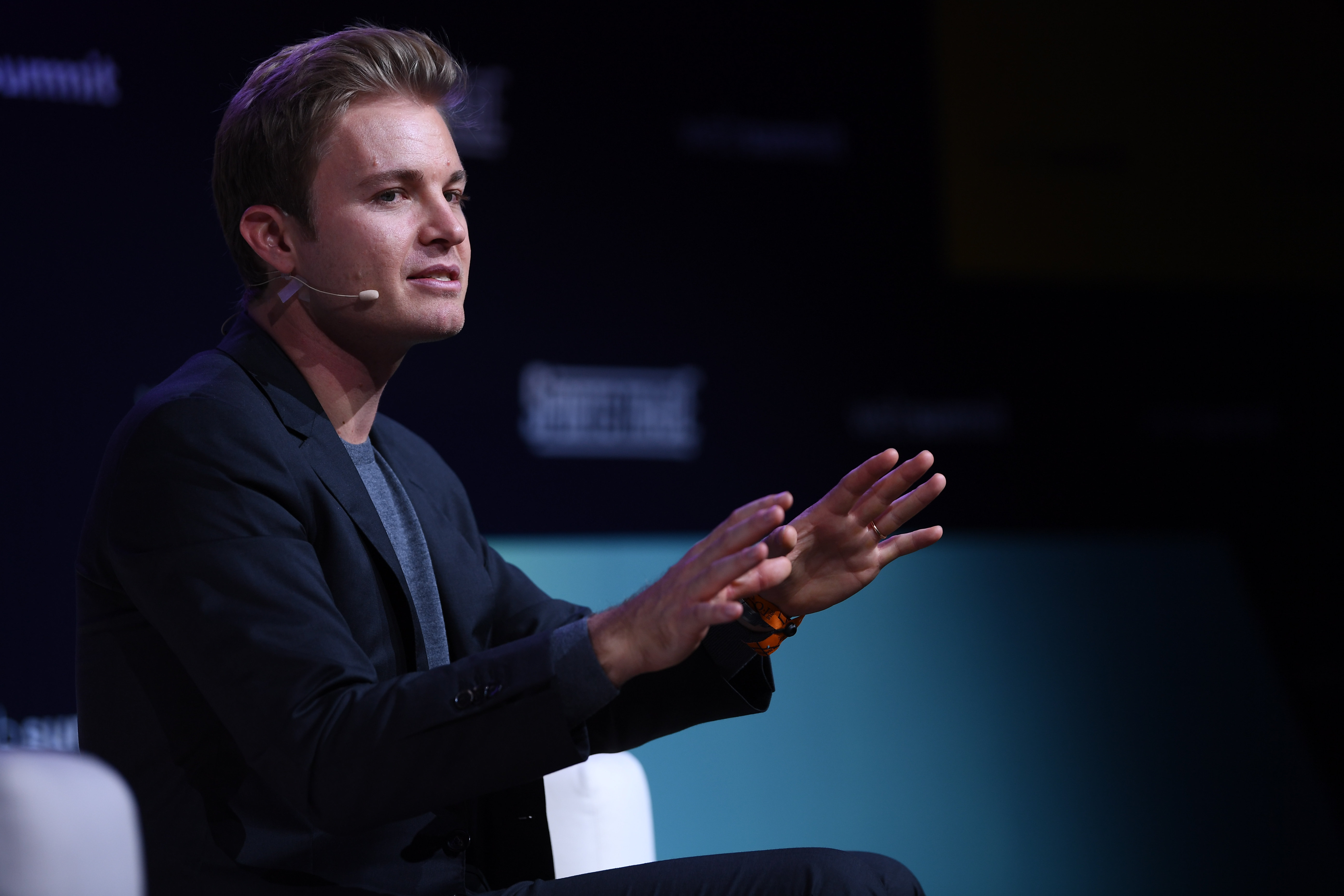 6 November 2018; Former Formula One driver Nico Rosberg on the Sportstrade Stage during the opening day of Web Summit 2018 at the Altice Arena in Lisbon, Portugal. Photo by Stephen McCarthy/Web Summit via Sportsfile